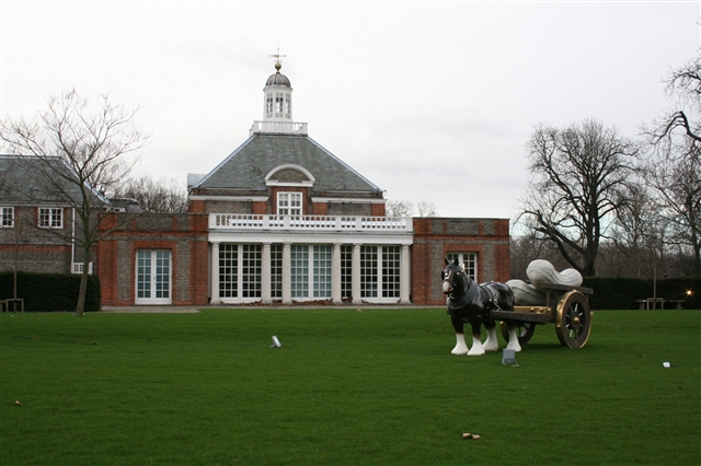 Serpentine gallery, Hyde Park Unfortunately I didn't find out what the exhibition was, as I was just passing - information welcome.